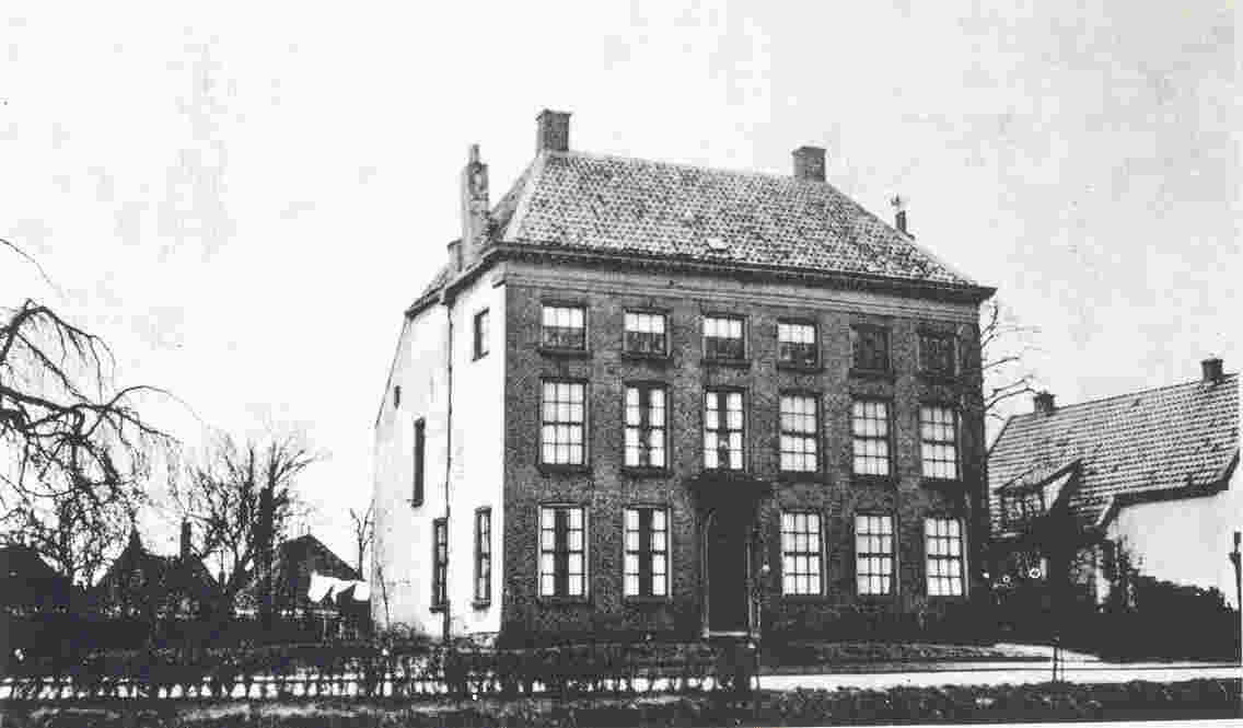 Elmersmastate in Hoogkerk (Groningen)